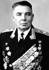 Vasily Margelov, Red Army general